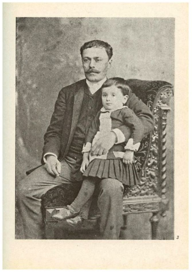 Photograph of Ion Luca Caragiale and his son Mateiu